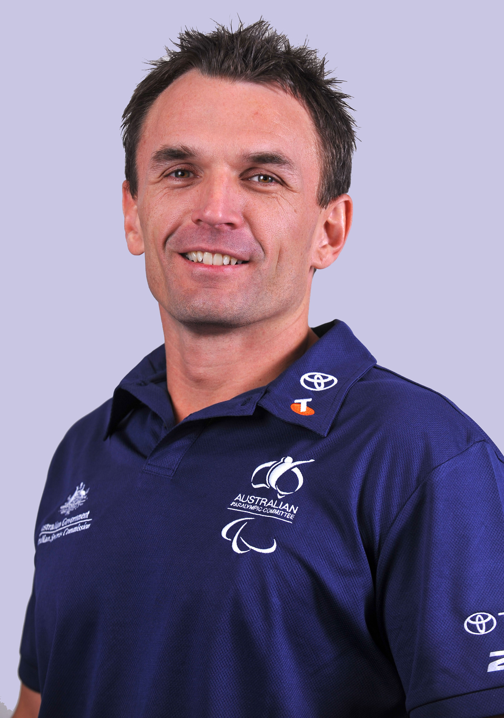 Portrait of Australian wheelchair basketballer Tige Simmons, 2012 Australian Paralympic (shadow) Team athlete